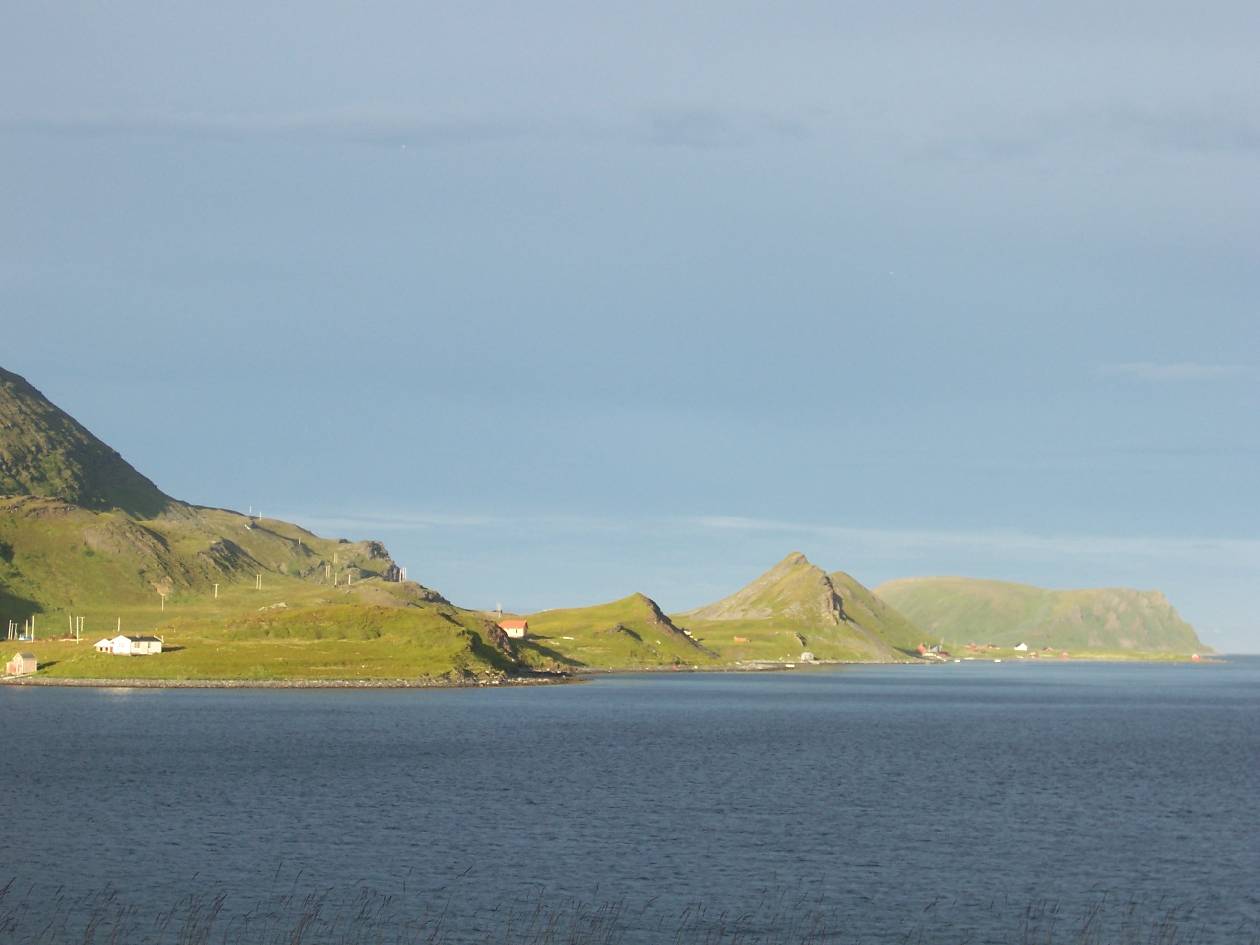 Western side of Porsangerfjorden near Honningsvåg and North Cape